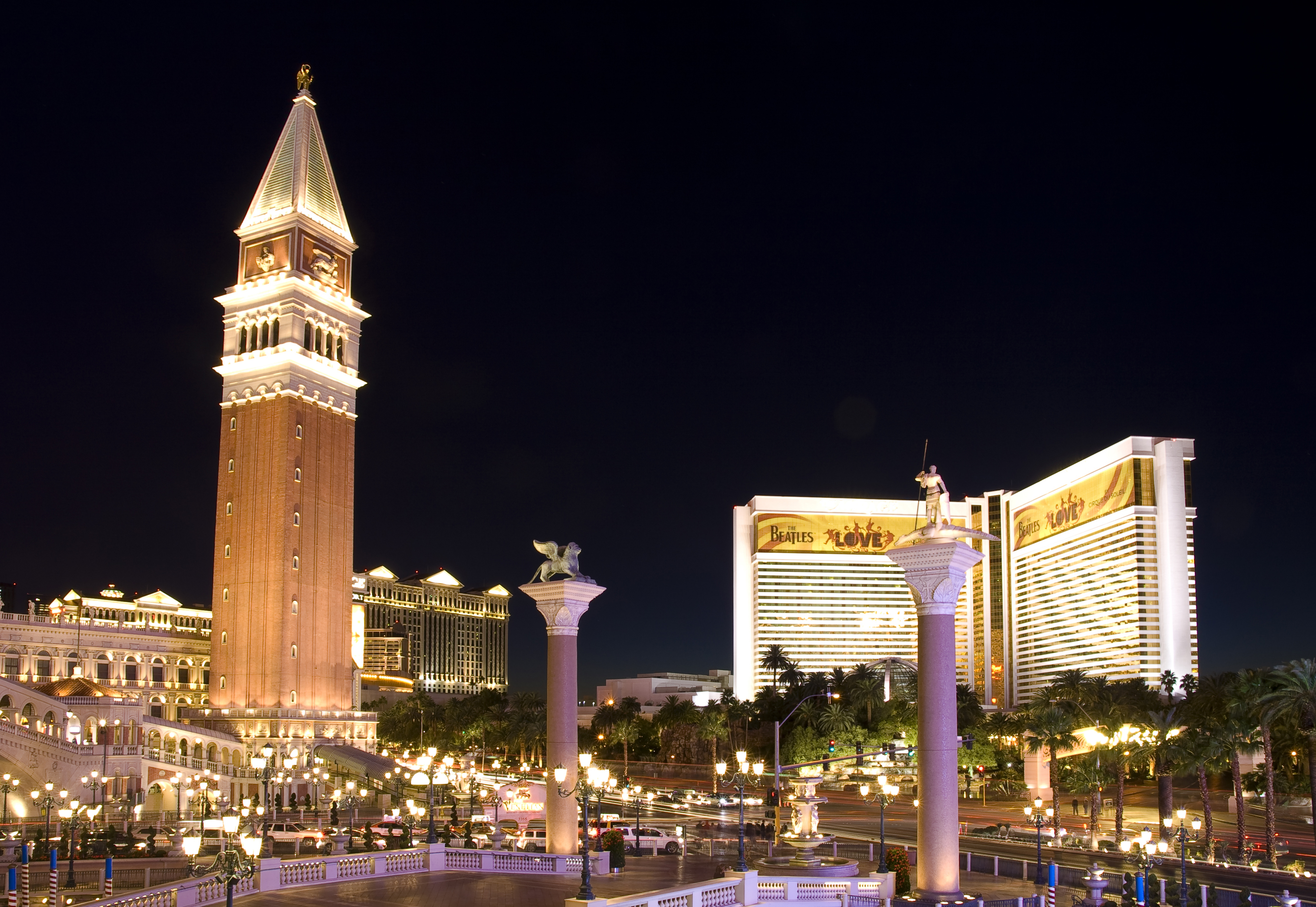 The Venetian